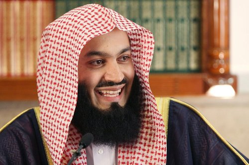 Mufti Menk during his lecture